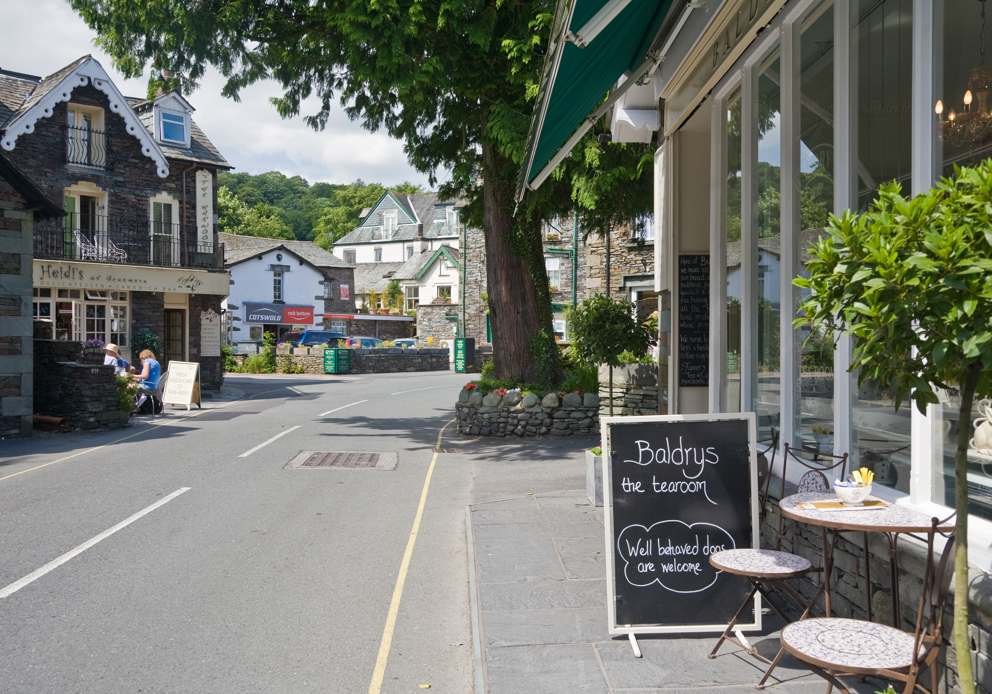 The village of Grasmere in the middle of the Lake District in Cumbria, England.